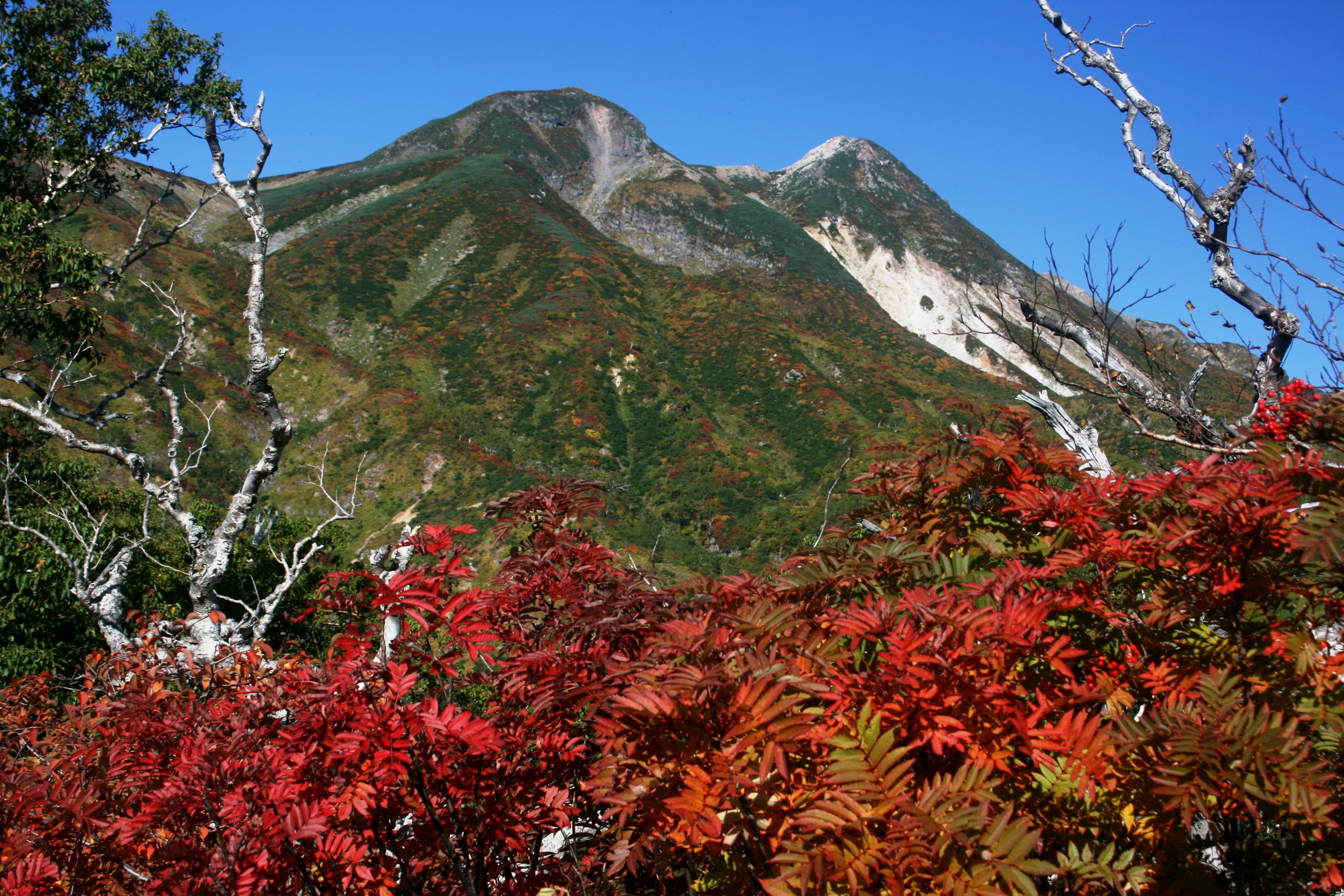 Mount Haku from Okura ridge